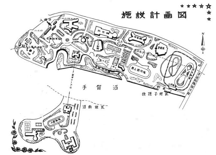 This is a plan of Teganuma Disney Land, Chiba pref., Japan. To protect copyrights, characters were deleted.